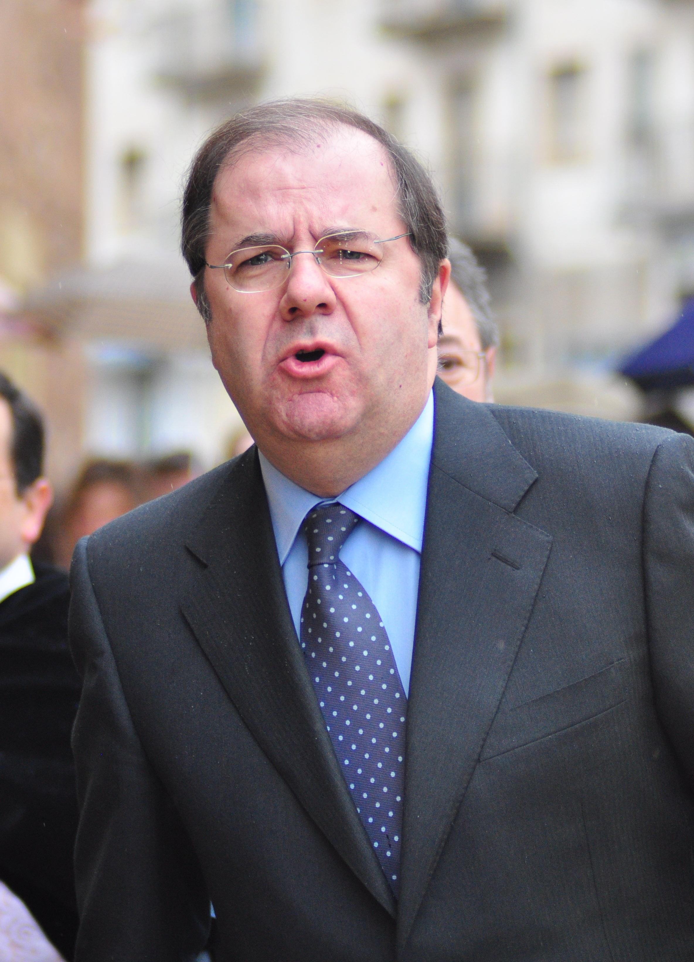 Juan Vicente Herrera, President of the Community of Castile and León.